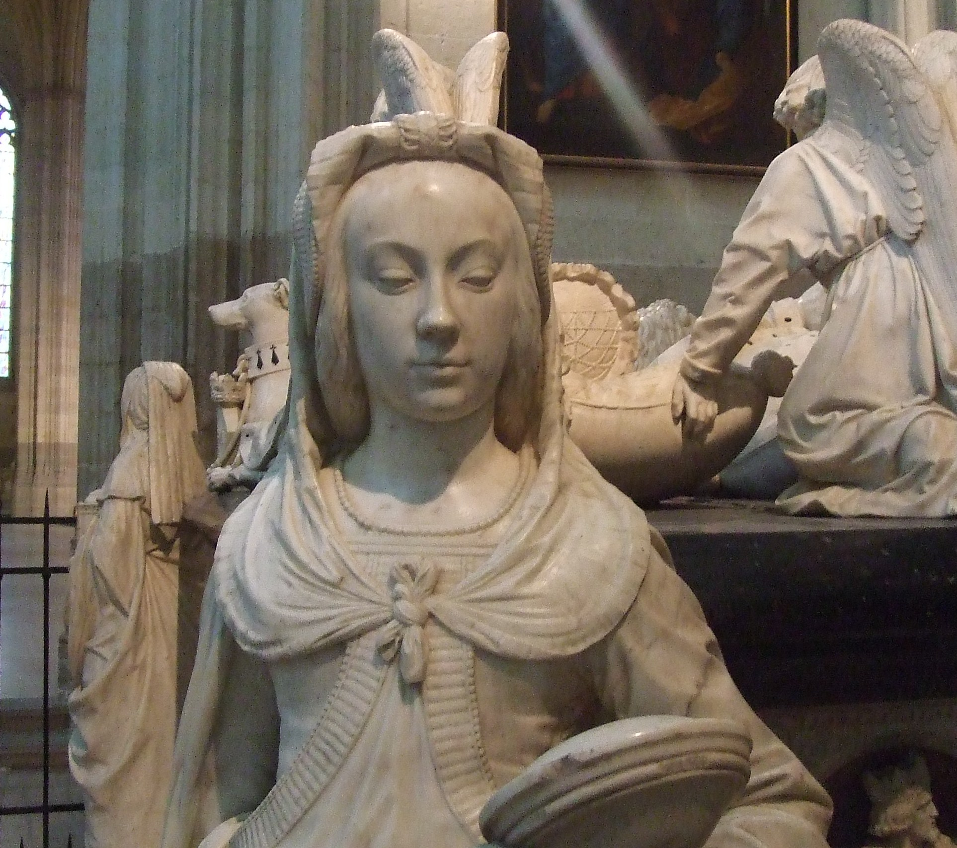 detail of the tomb of Francis II of Brittany, showing the allegorical figure of Prudence